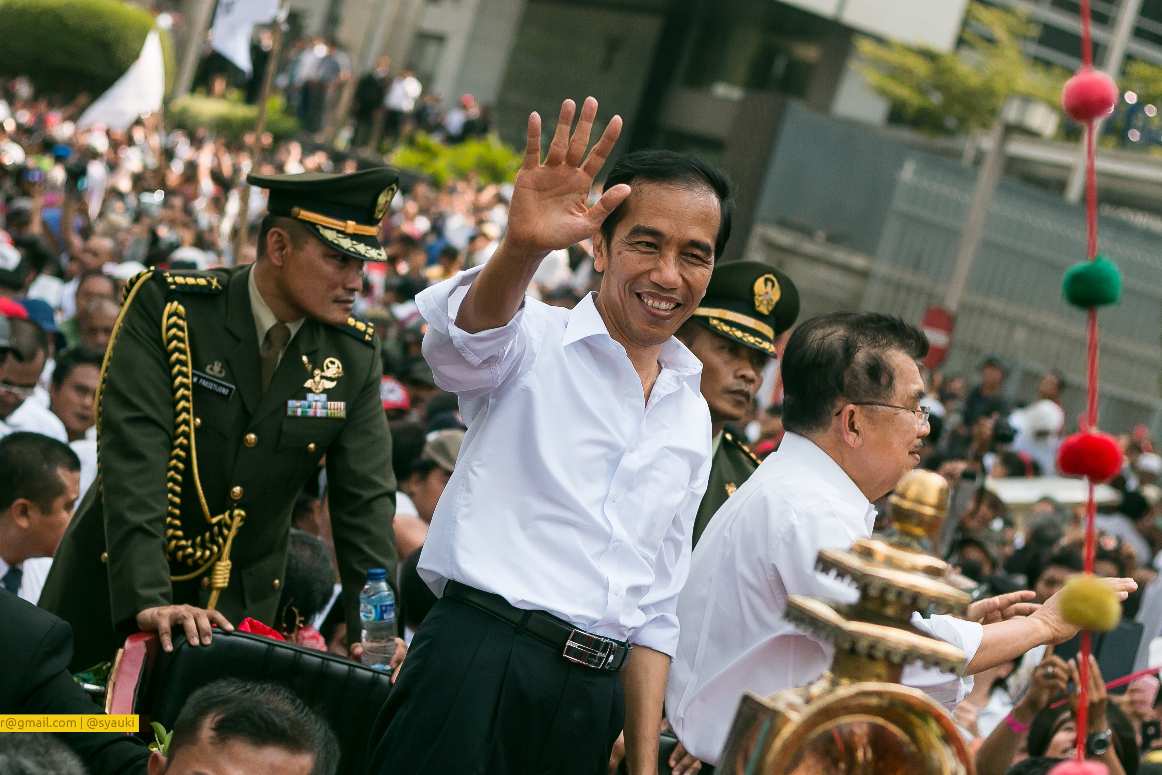 The New Mr. President